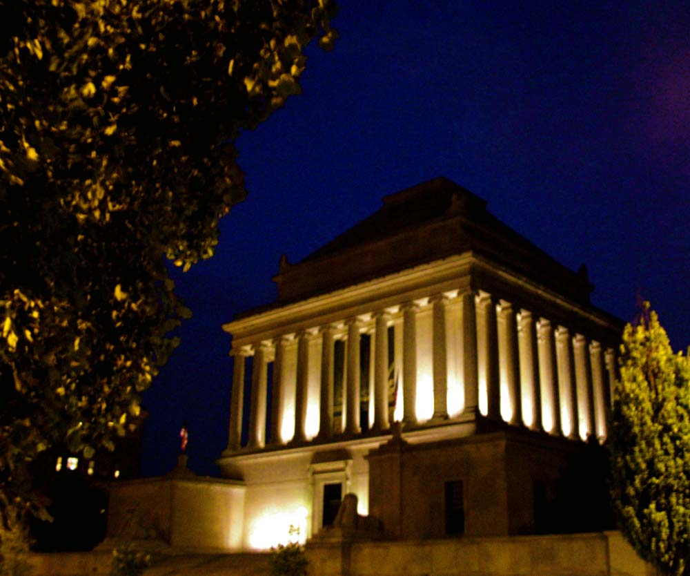 The Masonic Temple on 16th Street, NW. Washington, DC, USA